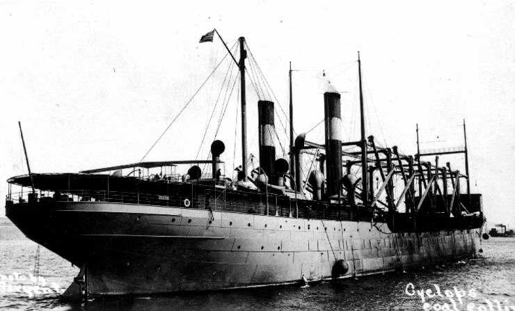 USS Cyclops (1910-1918)